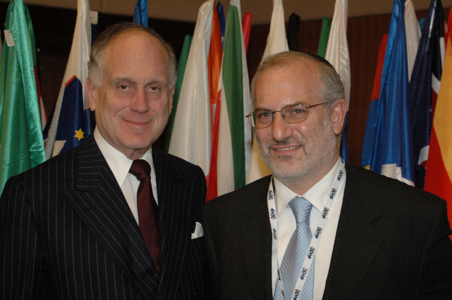 Word Jewish Congress President Ronald S. Lauder (left) and Eduardo Elsztain, chairman of the WJC Governing Board.